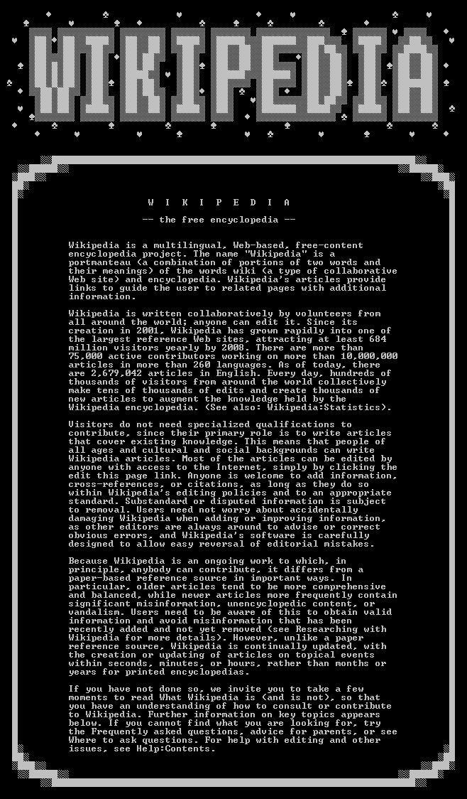 A screenshot of a .nfo file (non-proportional display of IBM PC Code Page 437 characters.